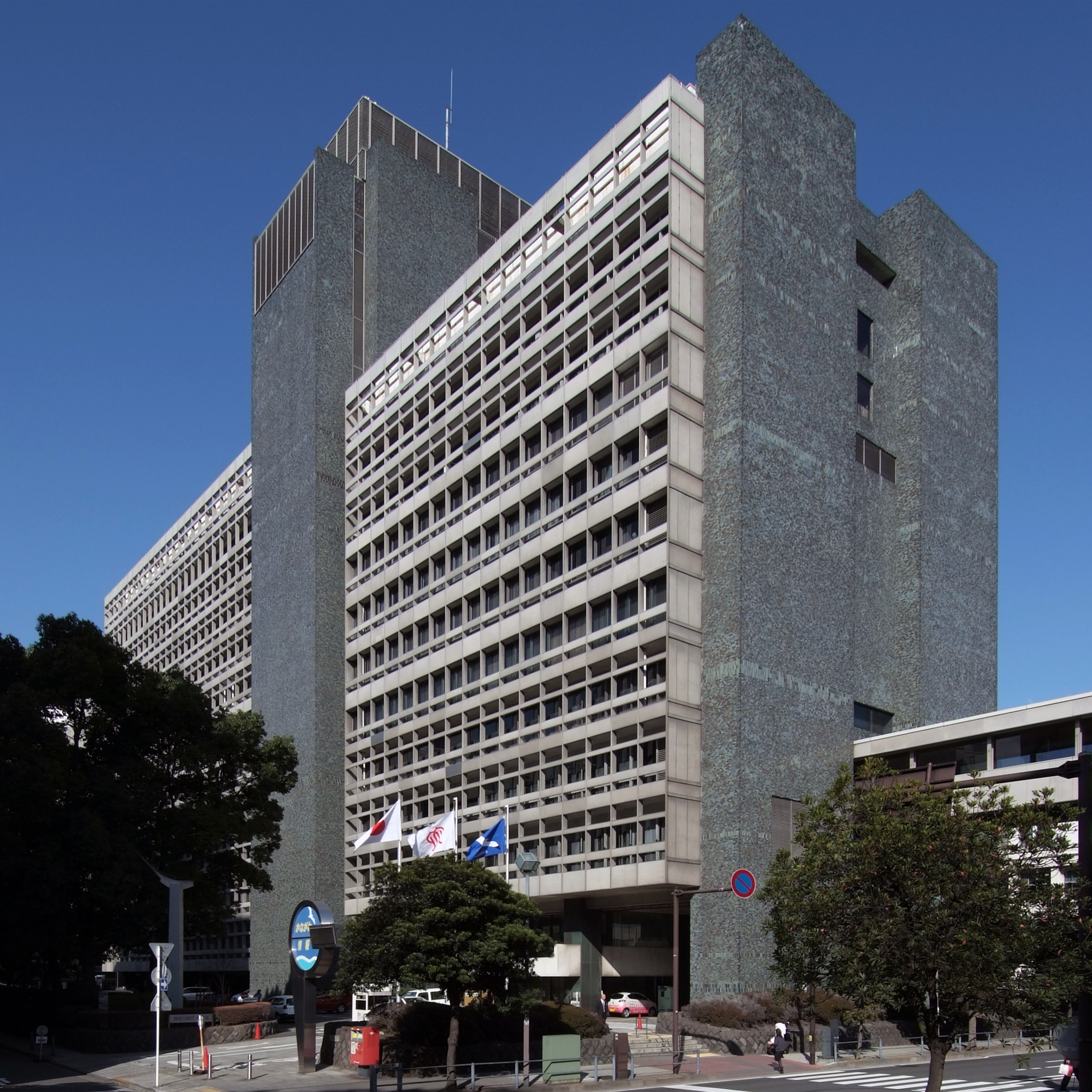 Kanagawa Prefectural office new, at Yokohama Kanagawa Japan, design by Junzo Sakakura in 1966.